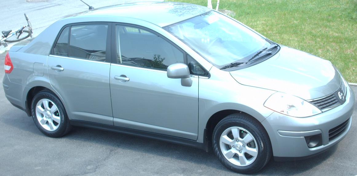 2007 Nissan Versa photographed in Montreal, Quebec, Canada.